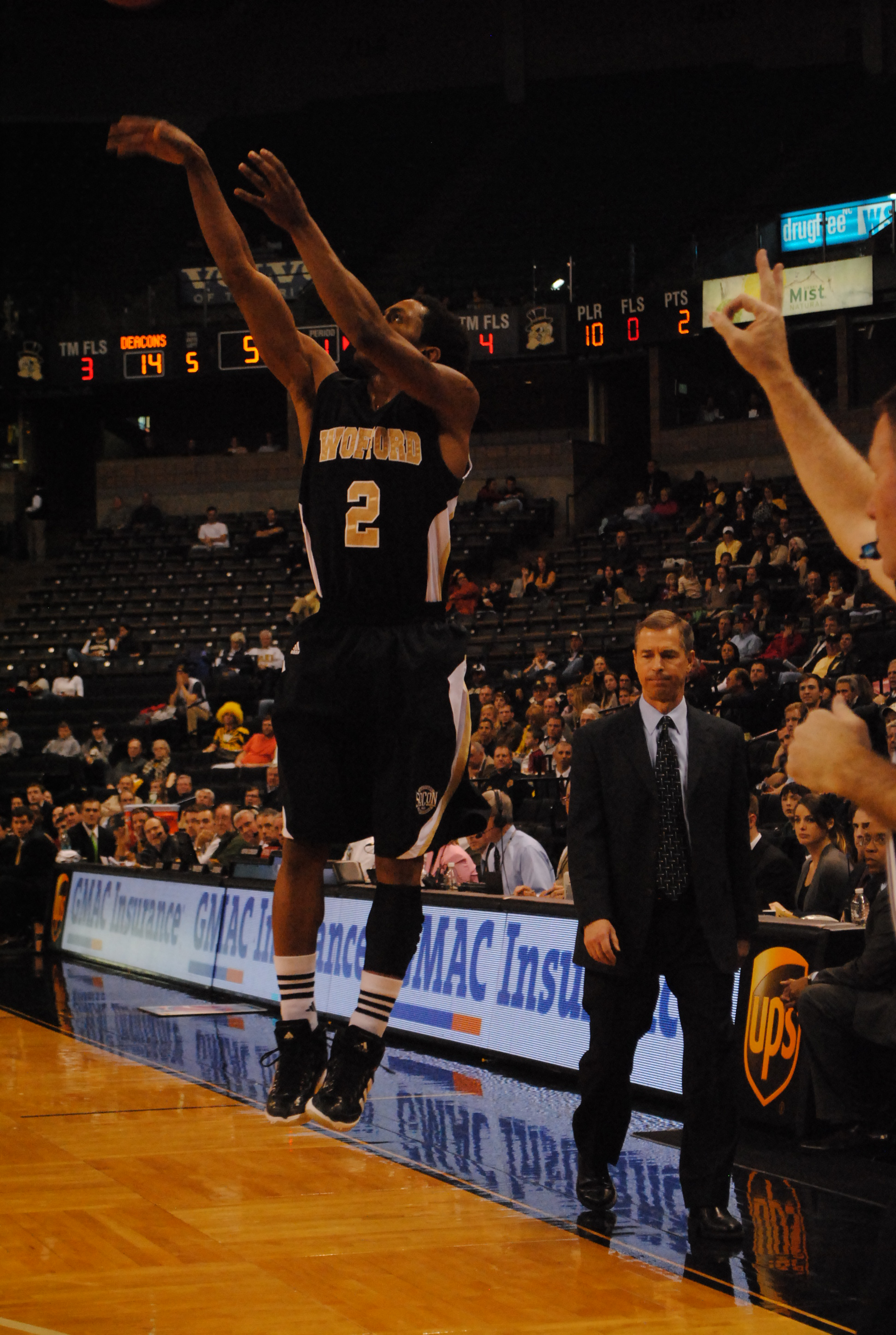 Karl Cochran shoots from in front of the Wake Forest Bench